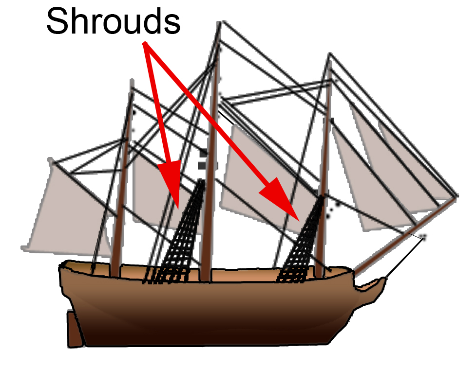 A diagram of shrouds on a 16th-century tall ship.